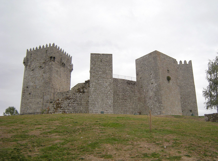 Montalegre Castle, Portugal